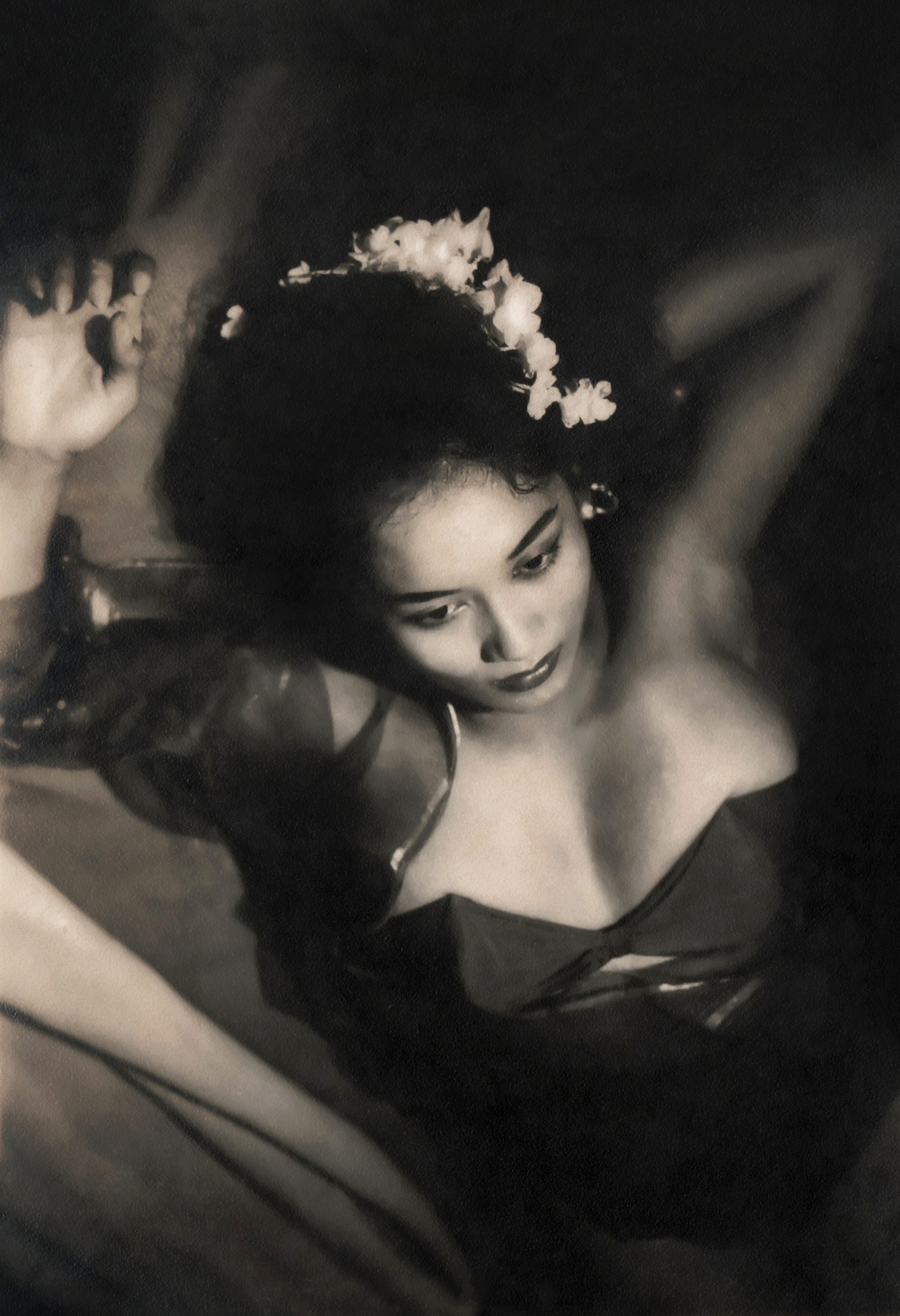 Postcard-sized promotional photograph of the Indonesian actress Nurnaningsih from the Hollywood photography studio, Jakarta. Dated to 1955 (ads appear in Film Varia at that time)